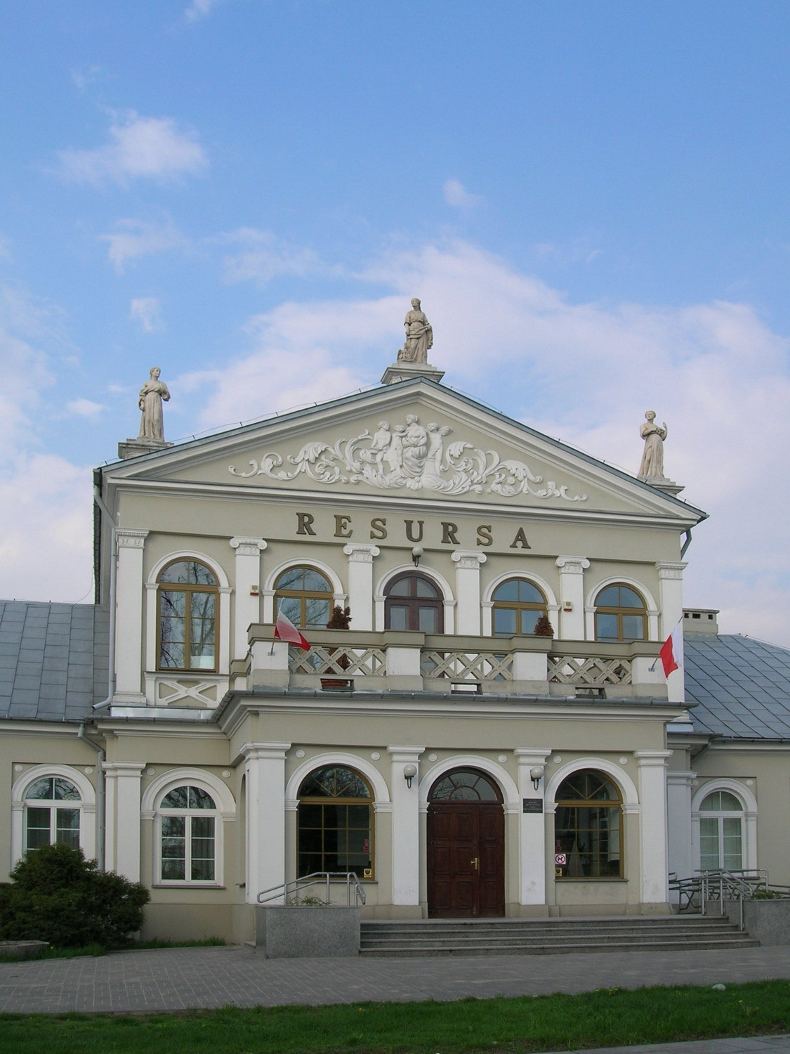 Radom - Citizens Club (Resursa Obywatelska).